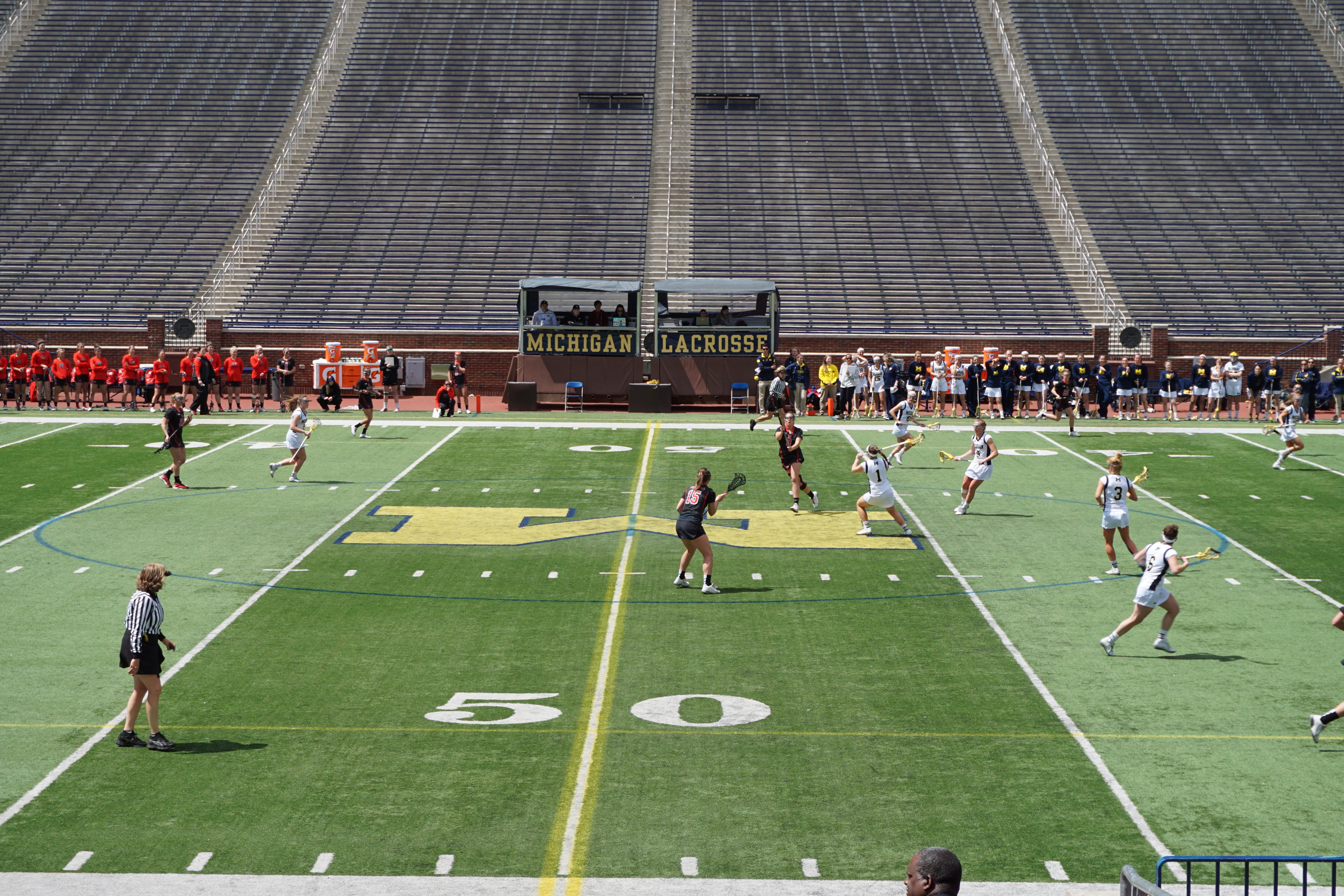 First-half action during the Rutgers Scarlet Knights vs. Michigan Wolverines women's lacrosse game at Michigan Stadium in Ann Arbor, Michigan (United States). Rutgers won 7–6.